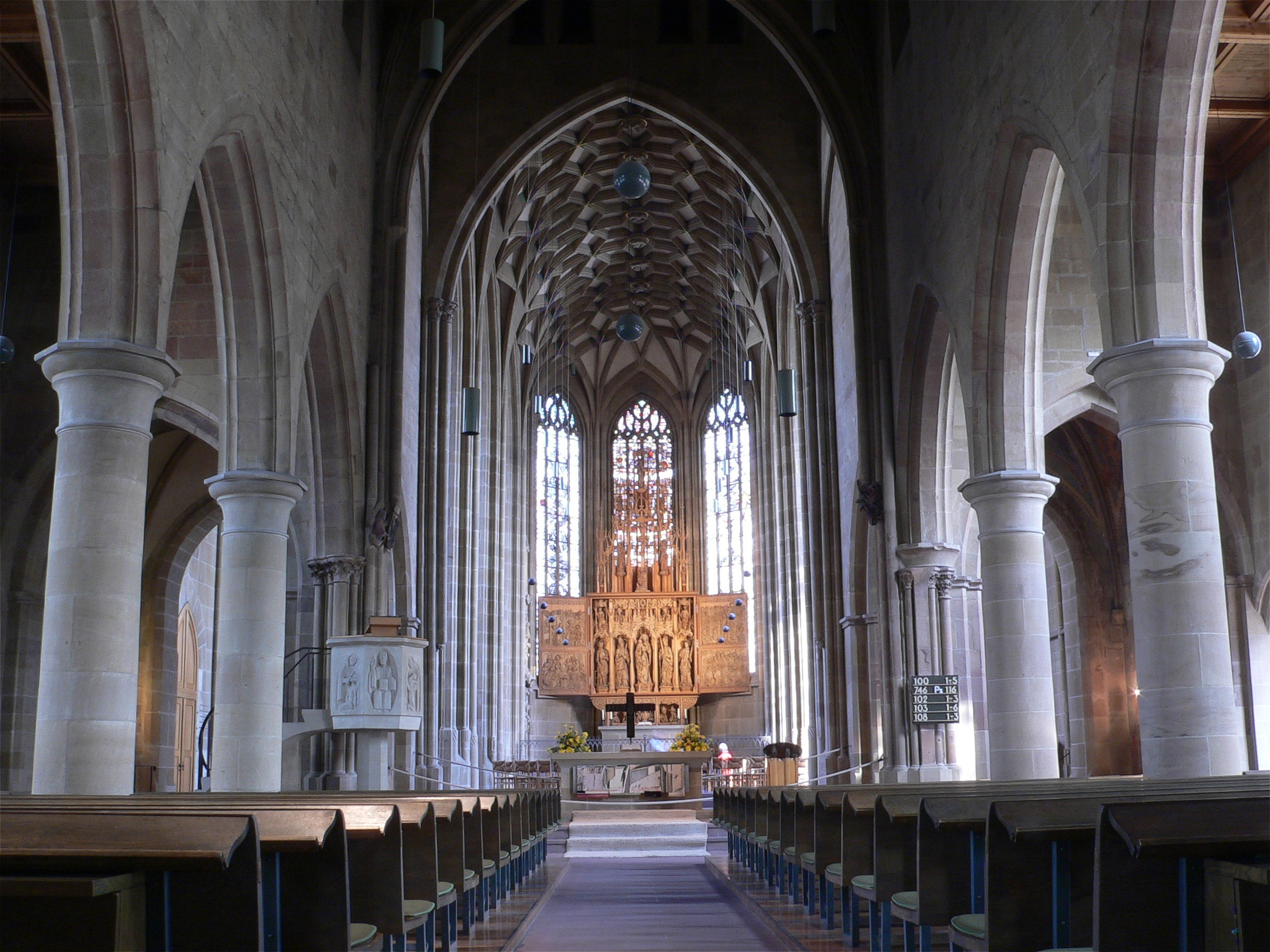 Church Kilianskirche of Heilbronn/Germany, View to the Choir with Altar by Seyffer